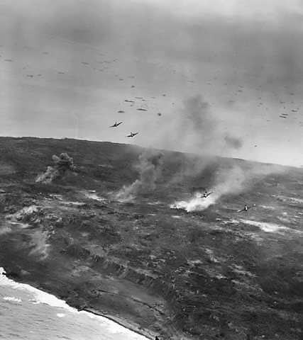 A group of U.S. Navy Grumman F6F Hellcats attacking in support of the ground force at Iwo Jima, 21 February 1945.